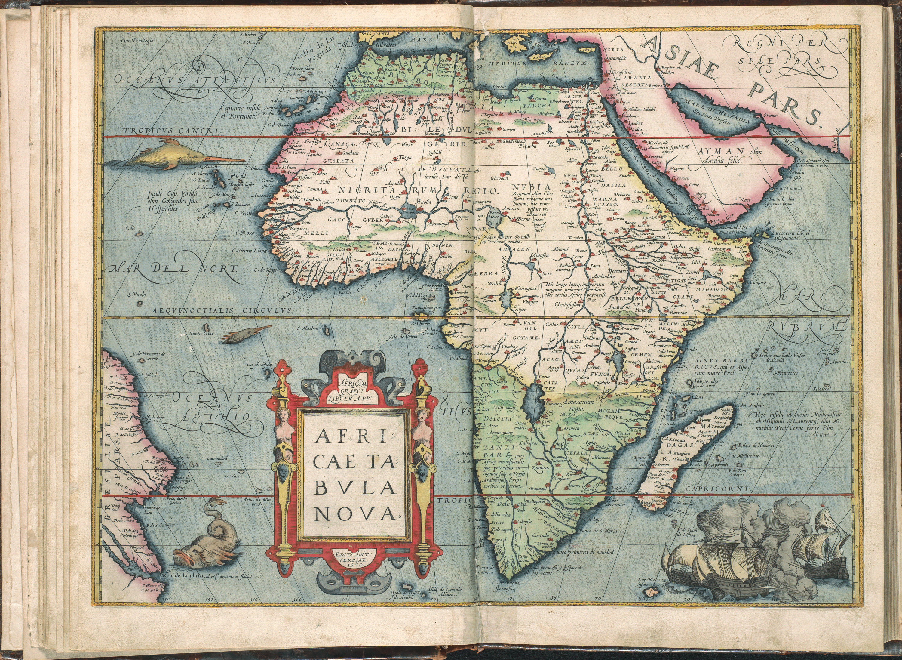 Plate '006av-006br' from the Atlas Ortelius by Abraham Ortelius. Original edition from 1571 with additions from 1573, 1579 and 1584. Complete description of this work (in Dutch) is available here.